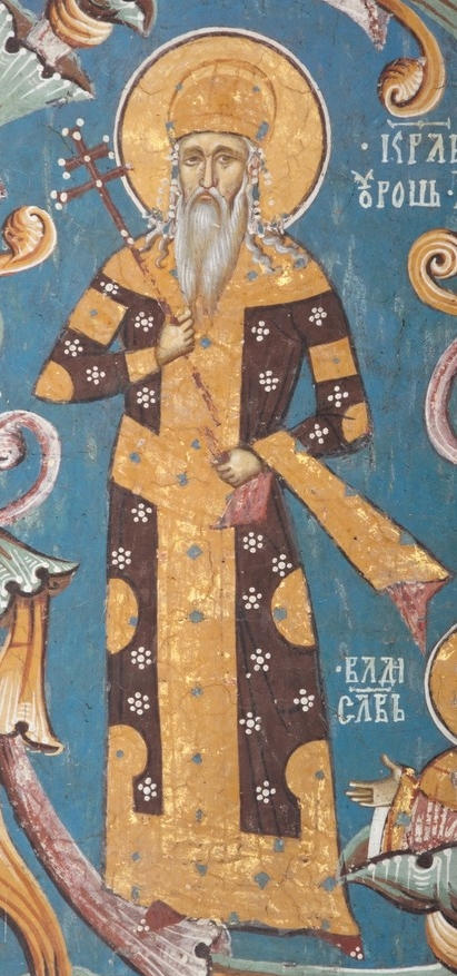 Detail of fresco Loza Nemanjića,Uroš,Visoki Dečani,Serbia.